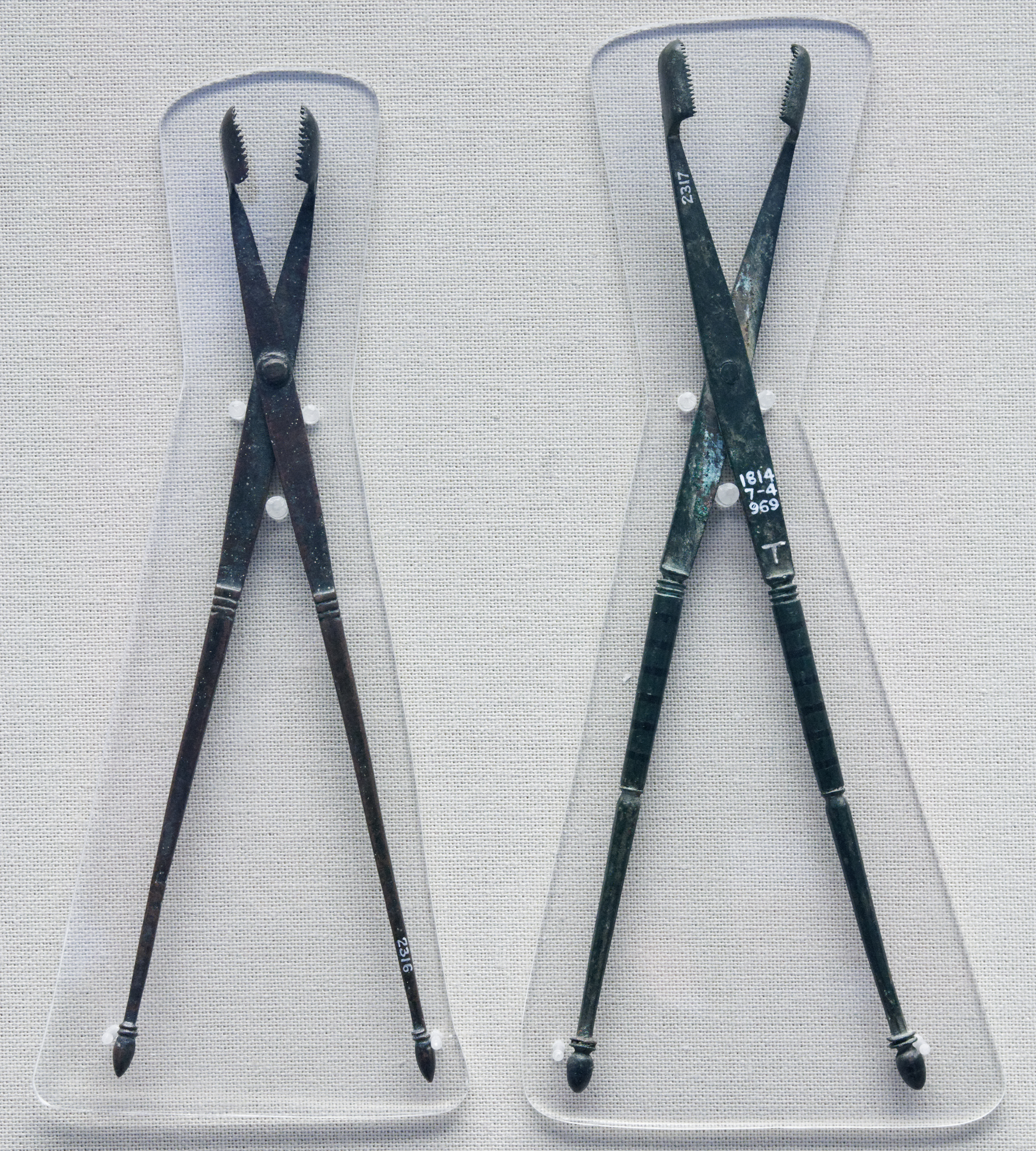 Forceps romain with fine-toothed hollow jaws.